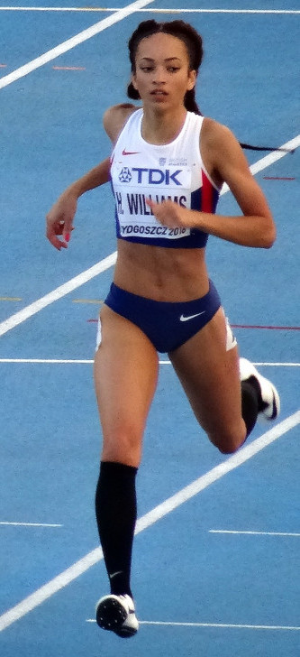 2016 IAAF World U20 Championships in Bydgoszcz, 400m women qualifications